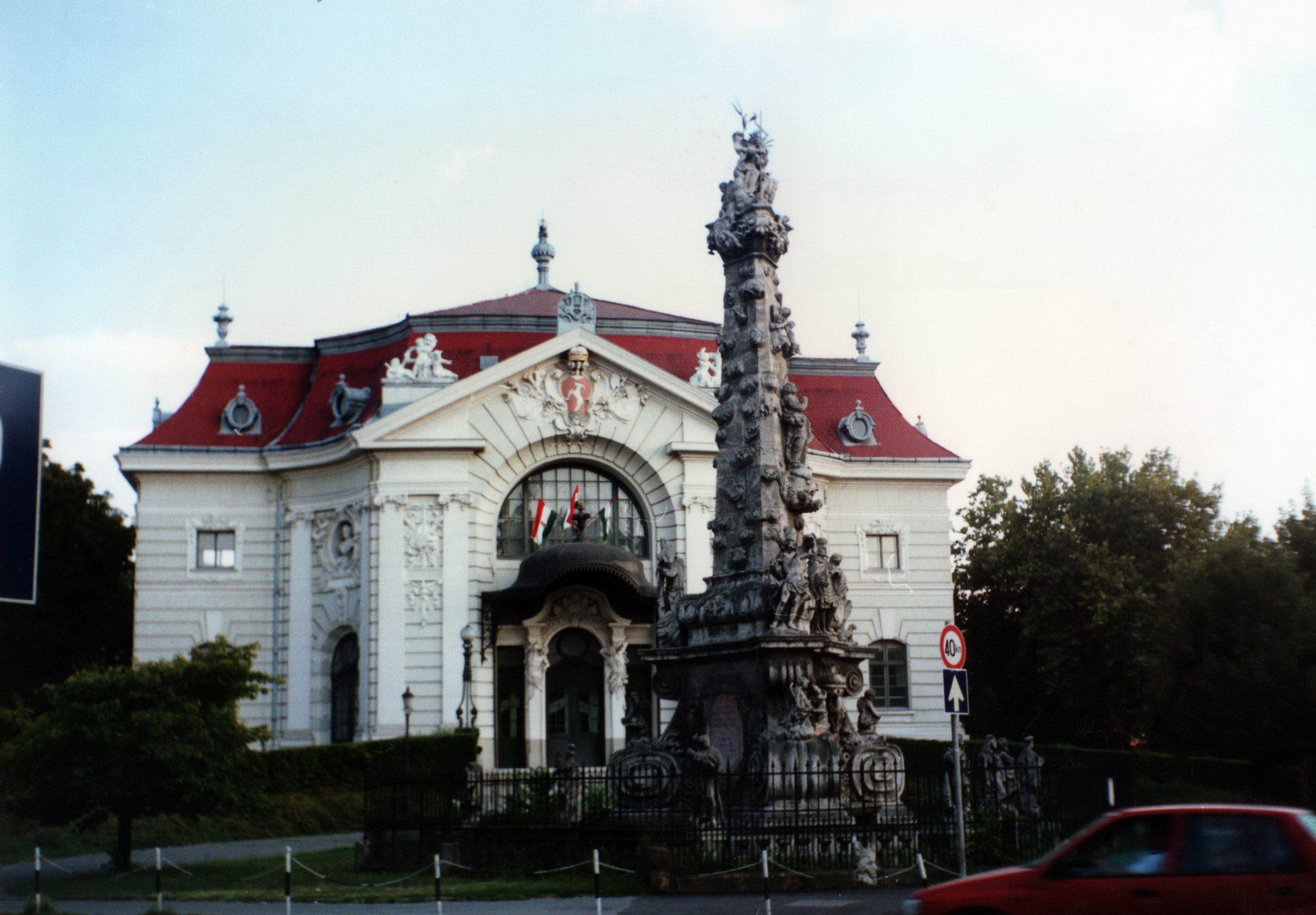 Katona József theatre, Kecskemét